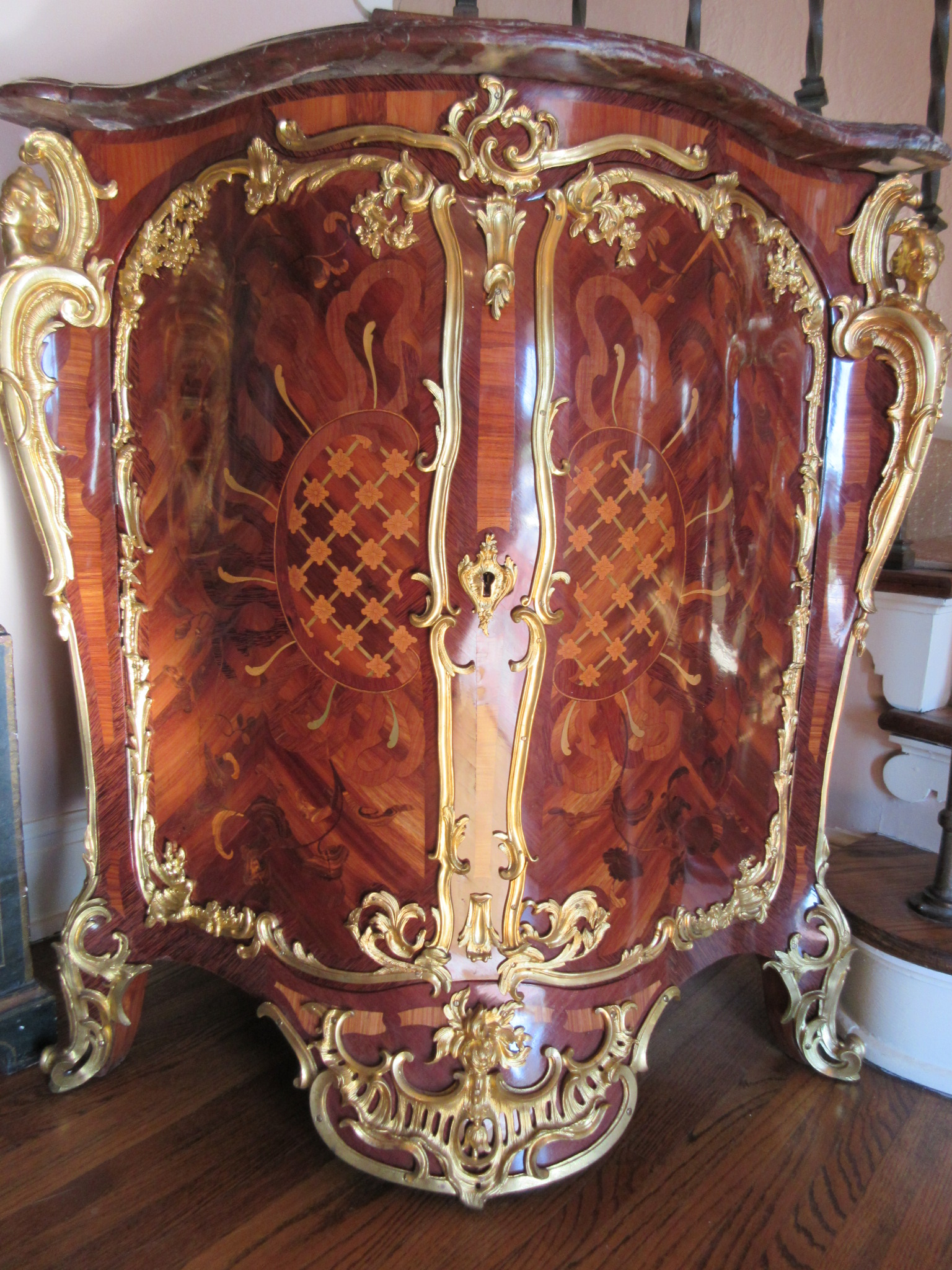 This is a photo I took of an encoignure by Jean-Pierre Latz sold at Sotheby's New York in 2015.